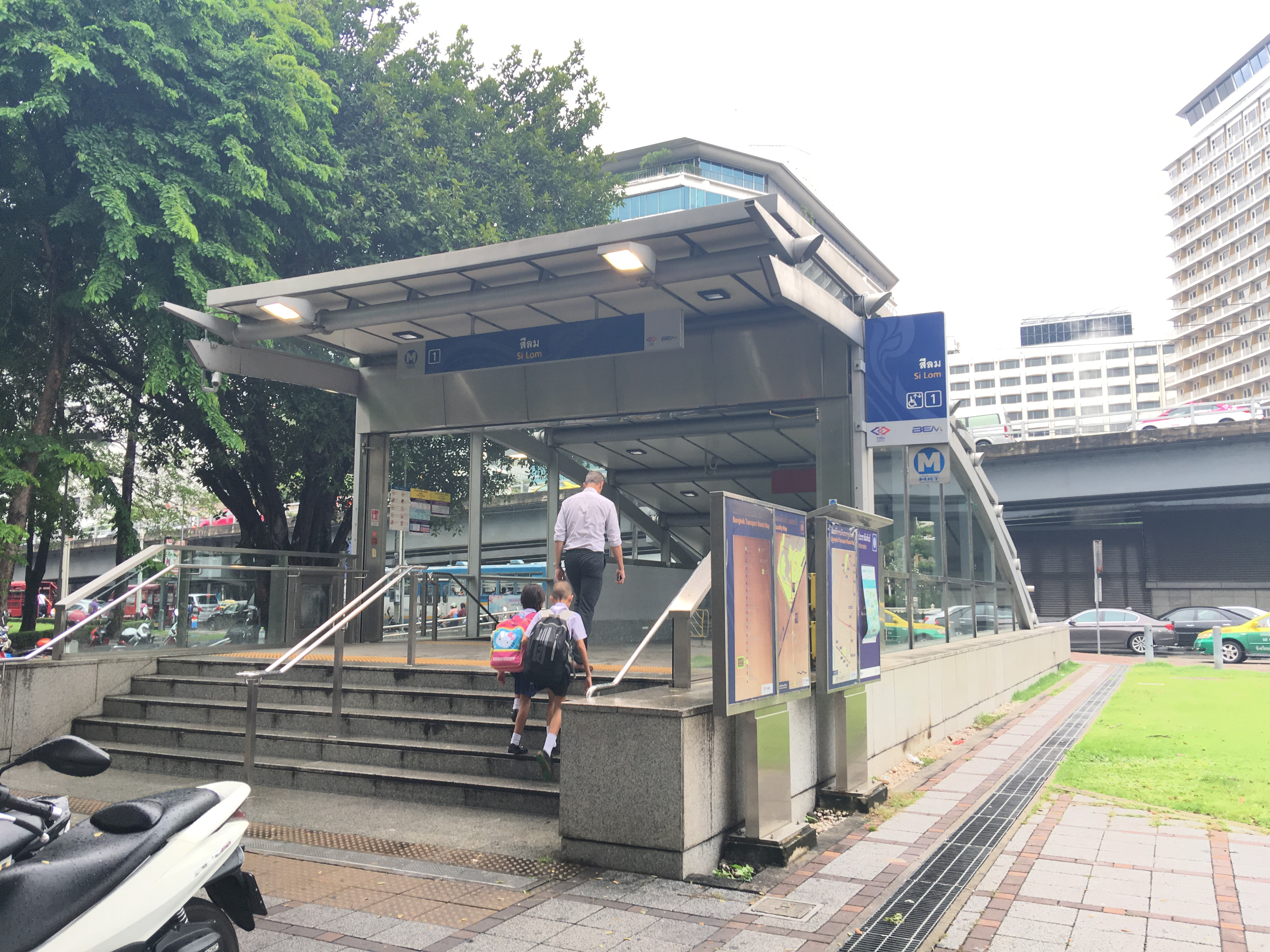 The entrance of Si Lom Station at Lumphini Park